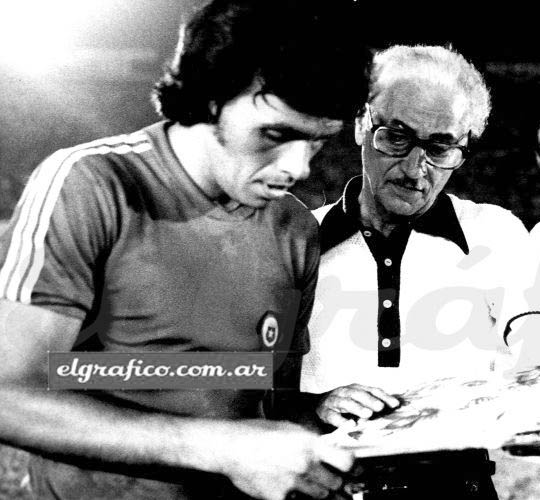 Chilean footballer Elías Figueroa being awarded before playing a qualification match in Guayaquil, where Chile defeated Ecuador 1-0.